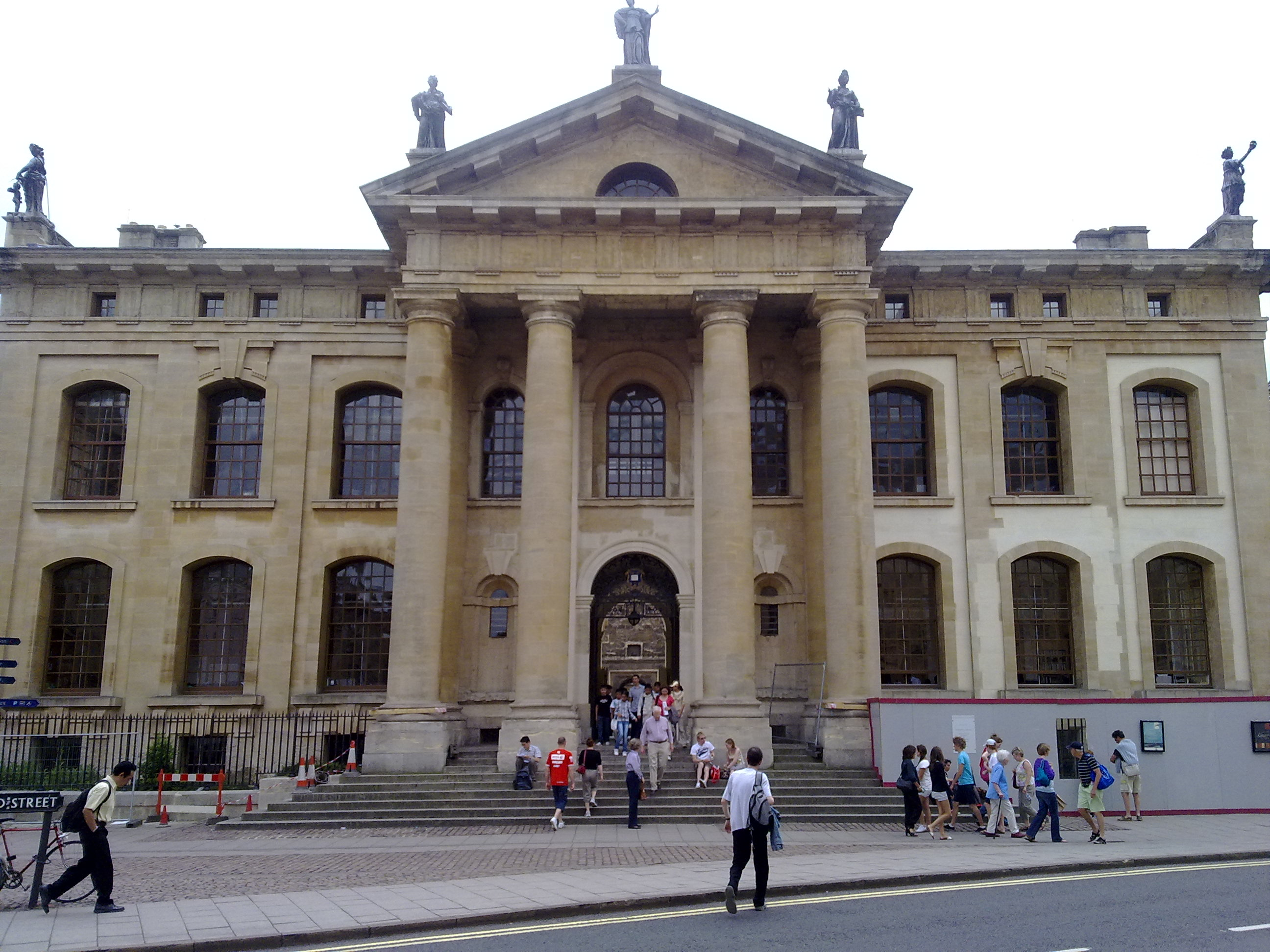 The Clarendon Building, as viewed from the north side of Broad Street.